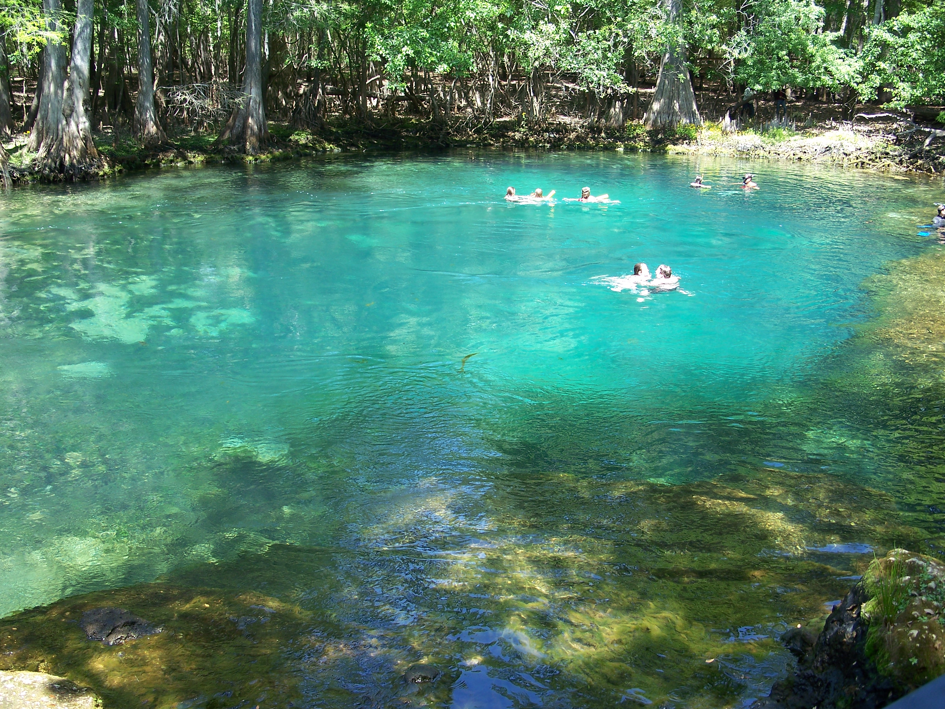 Manatee Springs. A huge karst spring in Manatee Springs State Park, near Chiefland, Florida, USA